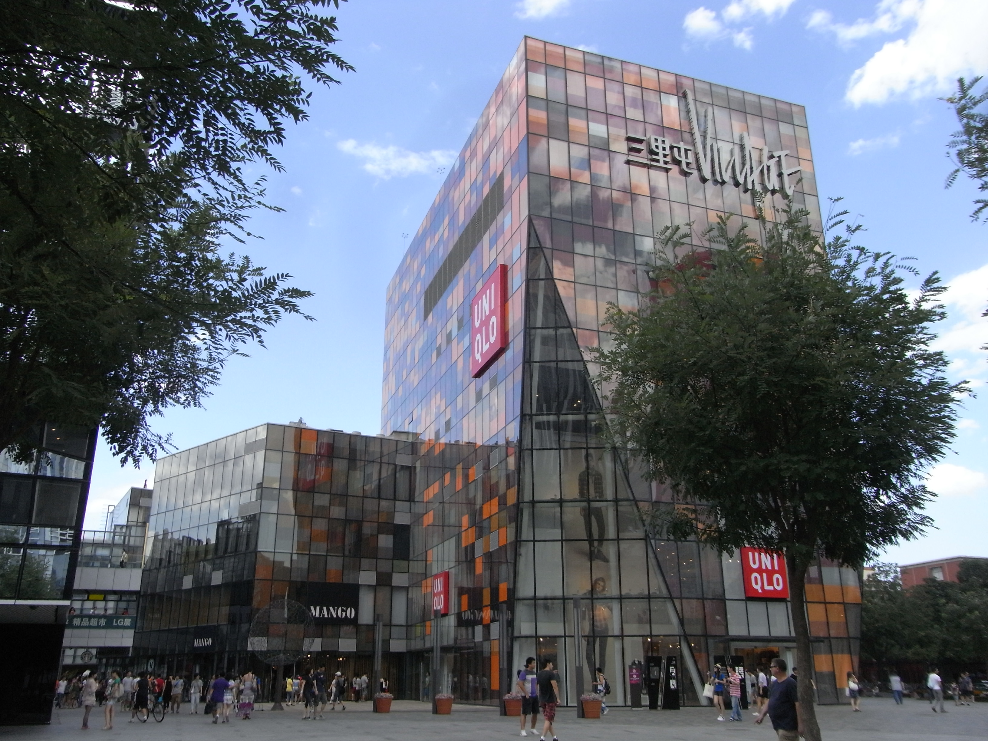 北京朝陽區2010年8月 Sanlitun